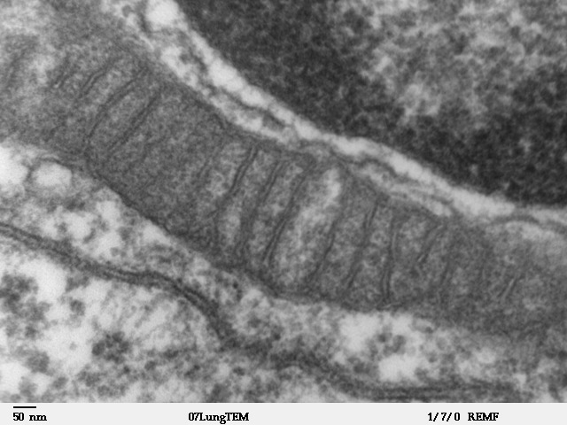 Transmission electron microscope image of a thin section cut through an area of mammalian lung tissue. This high magnification image shows a mitochondria. JEOL 100CX TEM